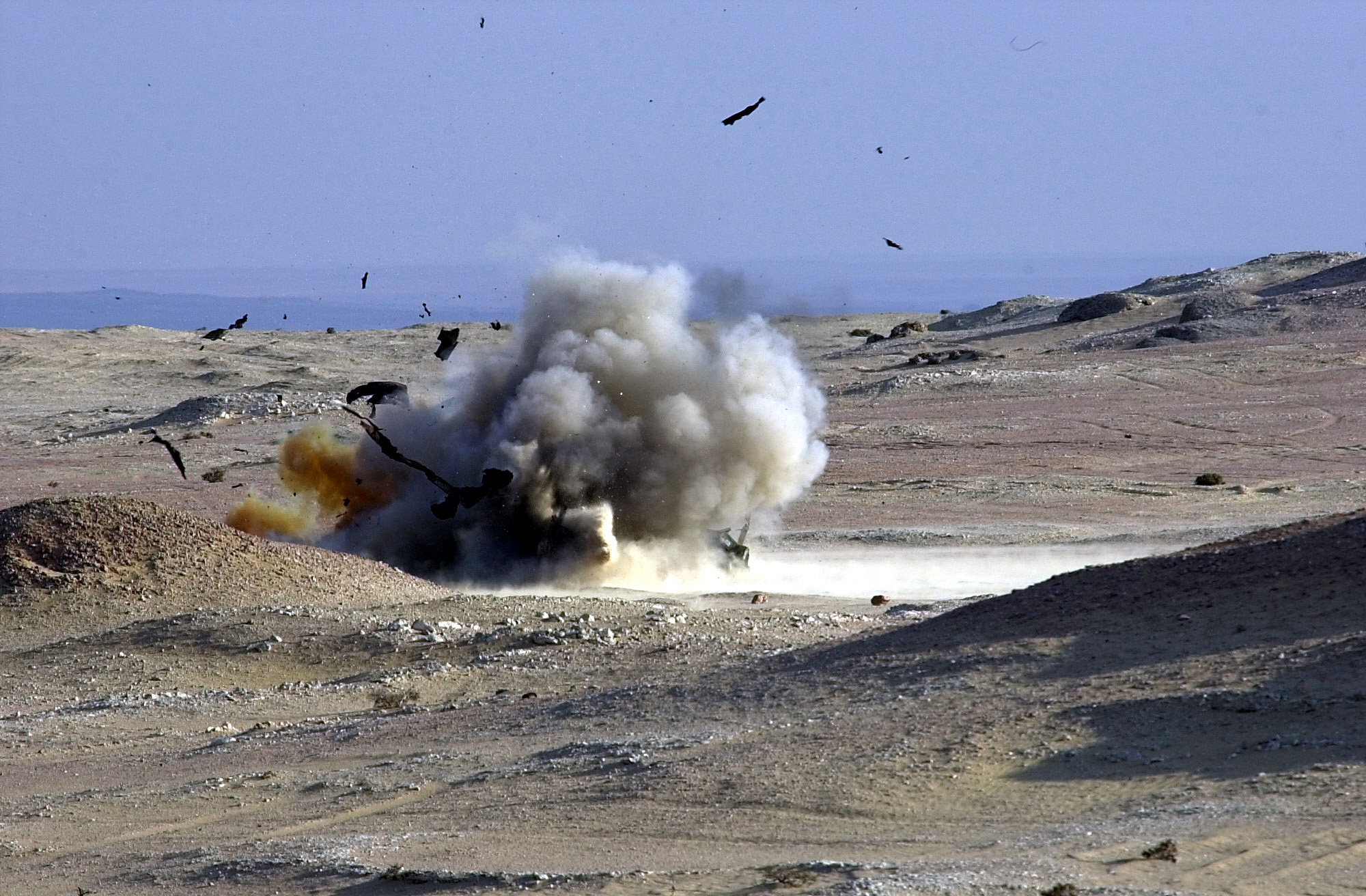 Medium shot of an explosion created by a missile fired from a German Milan anti-tank weapon striking a target during a small arms training course held at Mubarak Military City in Egypt during Exercise BRIGHT STAR 01/02.